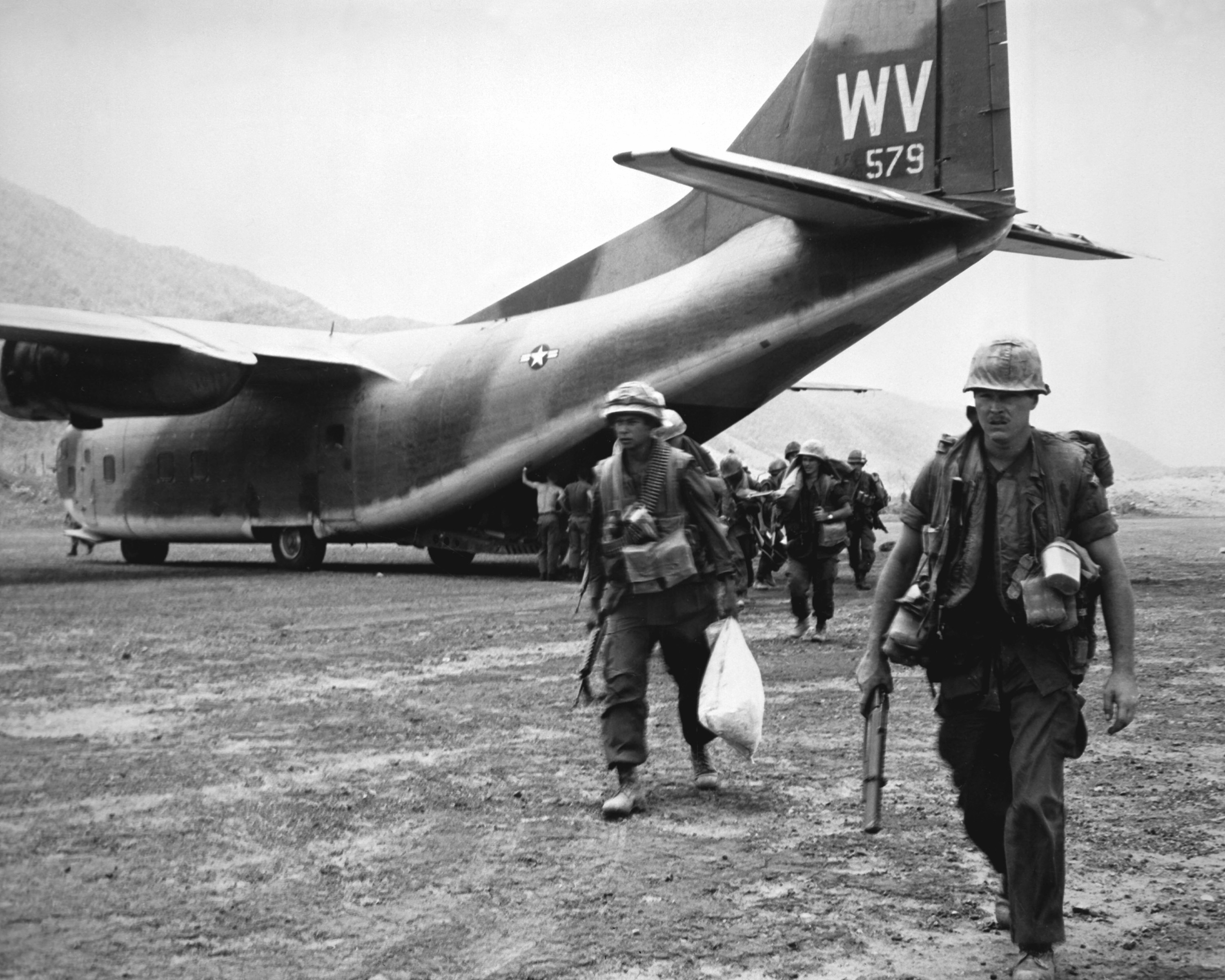 U.S. Marines head into combat after being airlifted to Ca Lu Combat Base on Highway 9 east of Khe Sanh by a U.S. Air Force Fairchild C-123K Provider aircraft (s/n 54-579) of the 311th Air Commando Squadron, 315th Air Commando Wing, in January 1968. In all, the 13 aircraft delivered 475 troops and over six tons of equipment in 90 minutes during "Operation Lancaster".